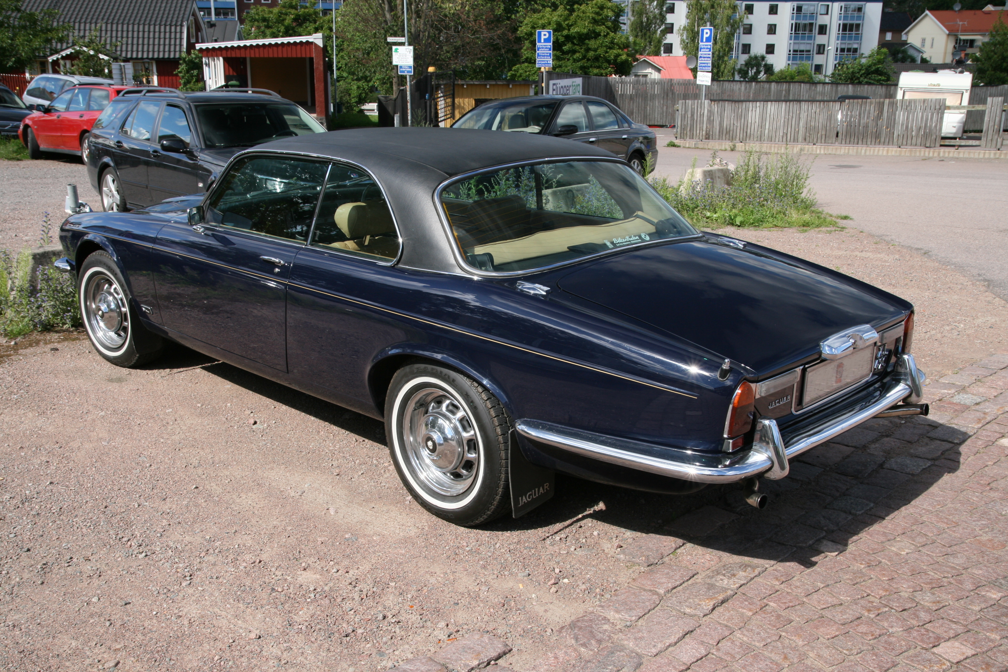 Rear-left view of a 1975 Jaguar XJ 4.2C.